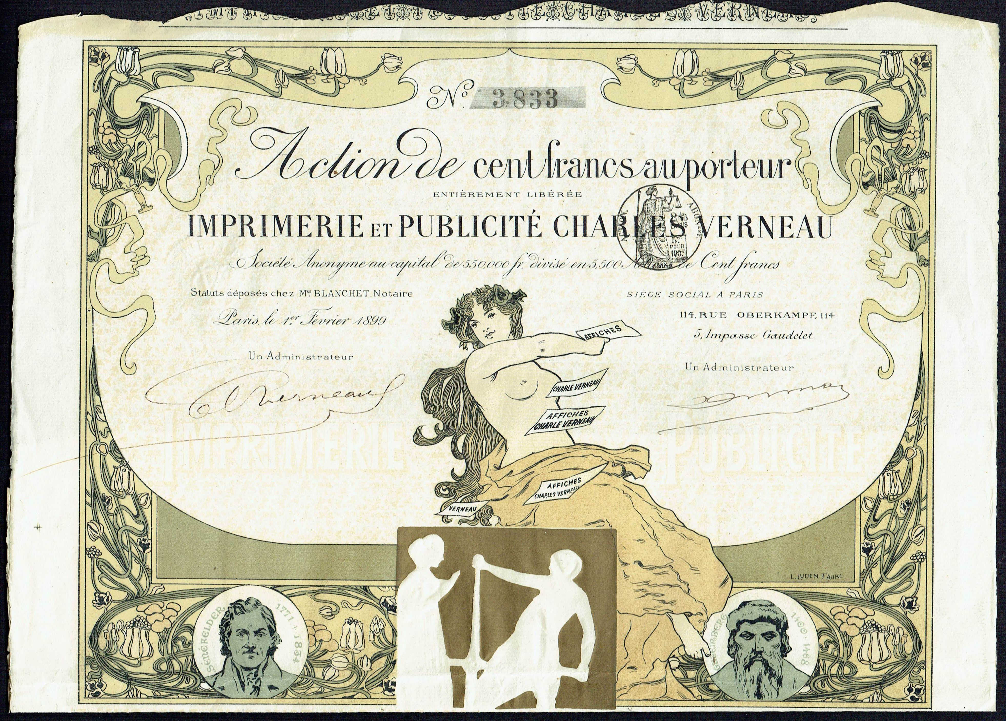 Share of the Imprimerie et Publicité Charles Verneau, issued 1. February 1899; designed by Lucien Faure